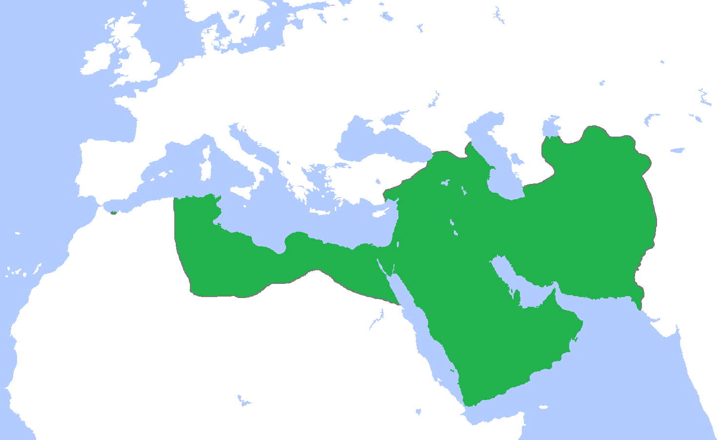 Map of the Abbasid Caliphate at its greatest extent, c. 786-809. (Partially based on Atlas of World History (2007) - Progress of Islam, map)